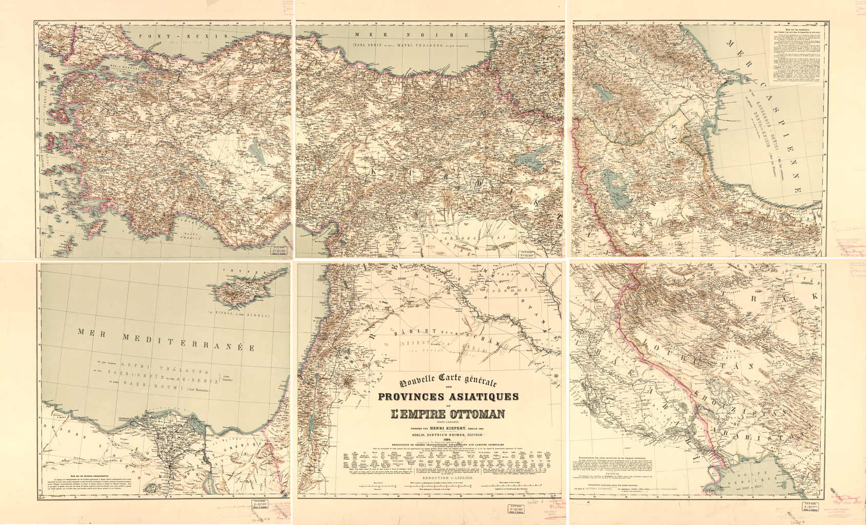 "New General Map of the Asian/Eastern Provinces of the Ottoman Empire: Without Arabia" by Heinrich Kiepert